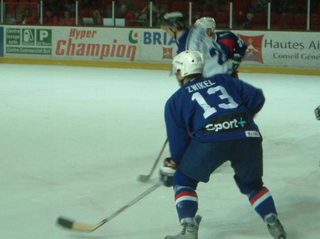 Jonathan Zwikel, ice hockey player with team France. Olympic qualification in Briançon, France, november 2004.